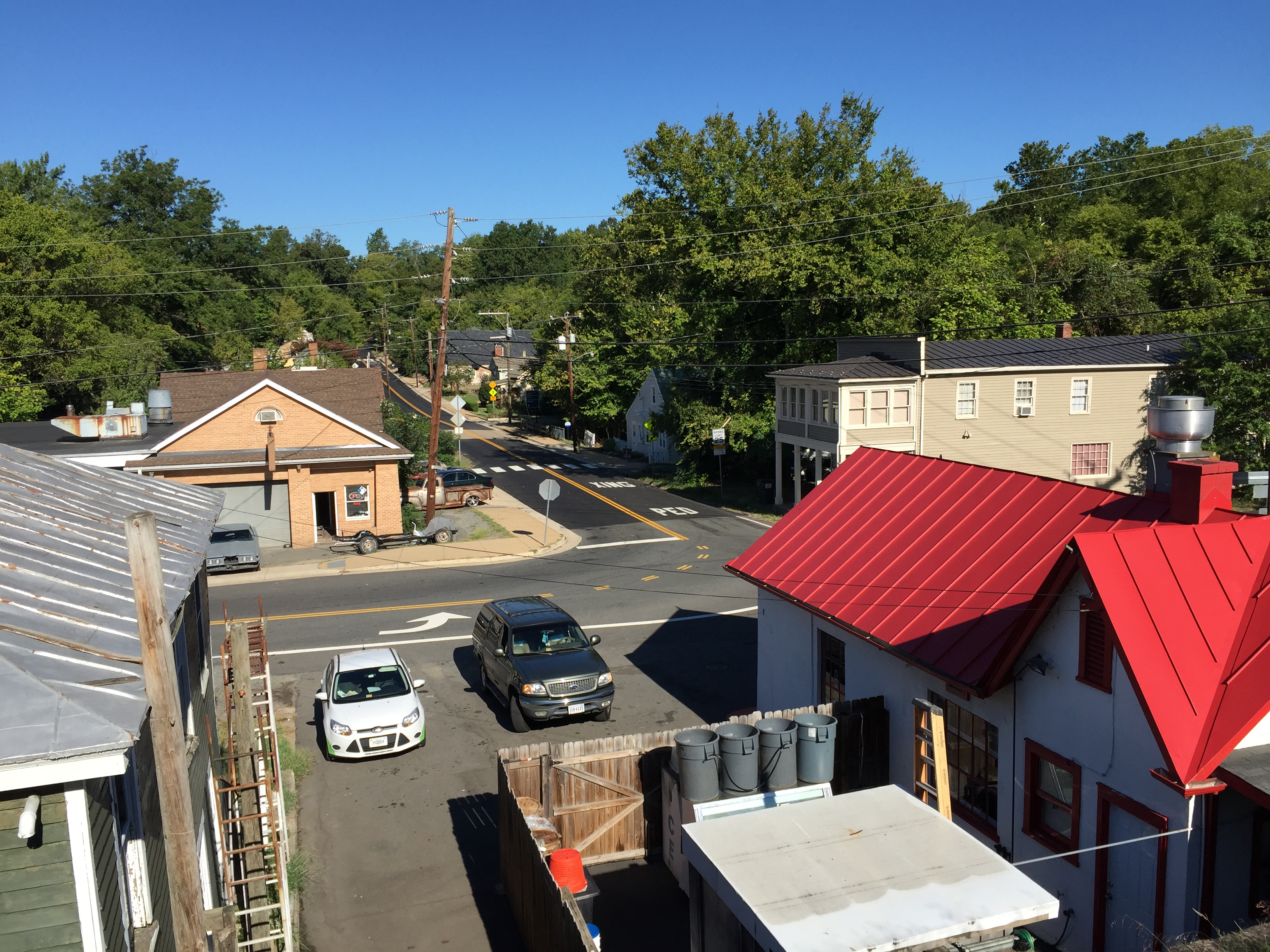 View northwest across central Falmouth, Stafford County, Virginia from U.S. Route 1 and U.S. Route 17 Business (Cambridge Street)